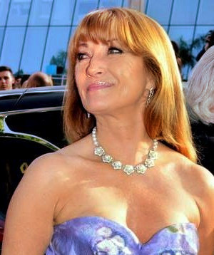 Jane Seymour at the Cannes film festival